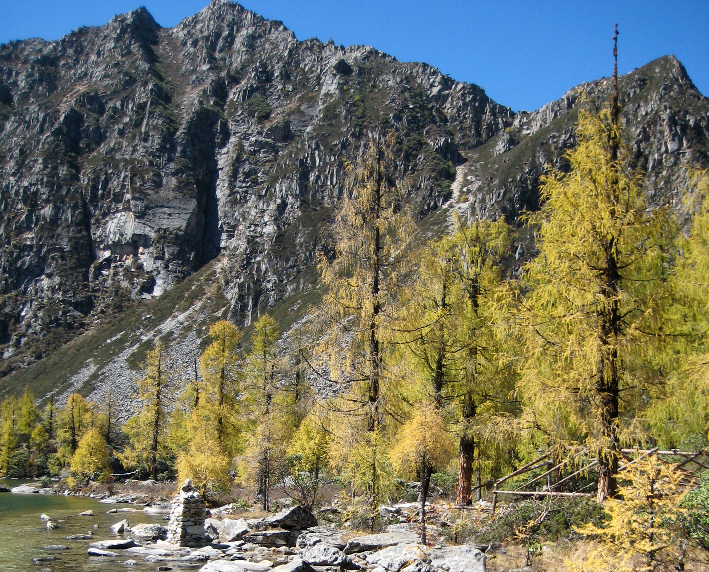 Larix potaninii trees in autumn colour. Huluhai, Sichuan - 四川葫芦海.